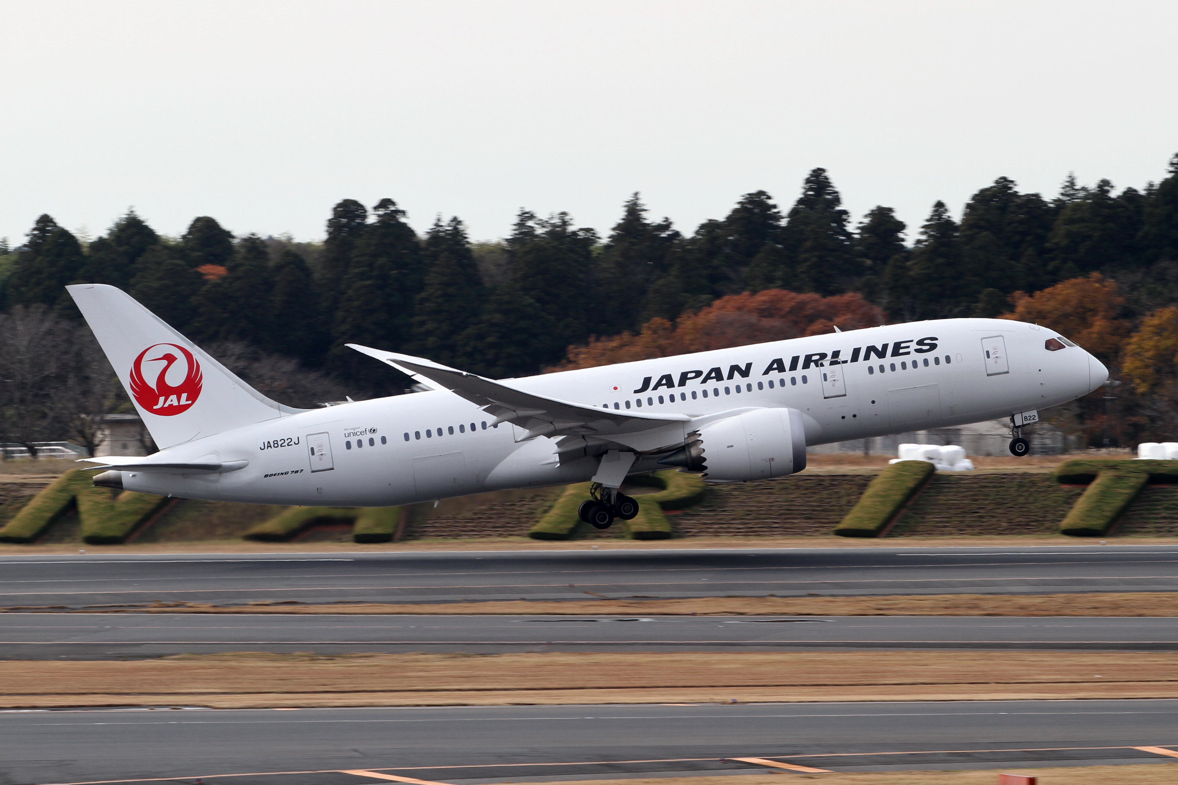 Narita International Airport, Boeing 787-846, c/n:34832, Japan Airlines